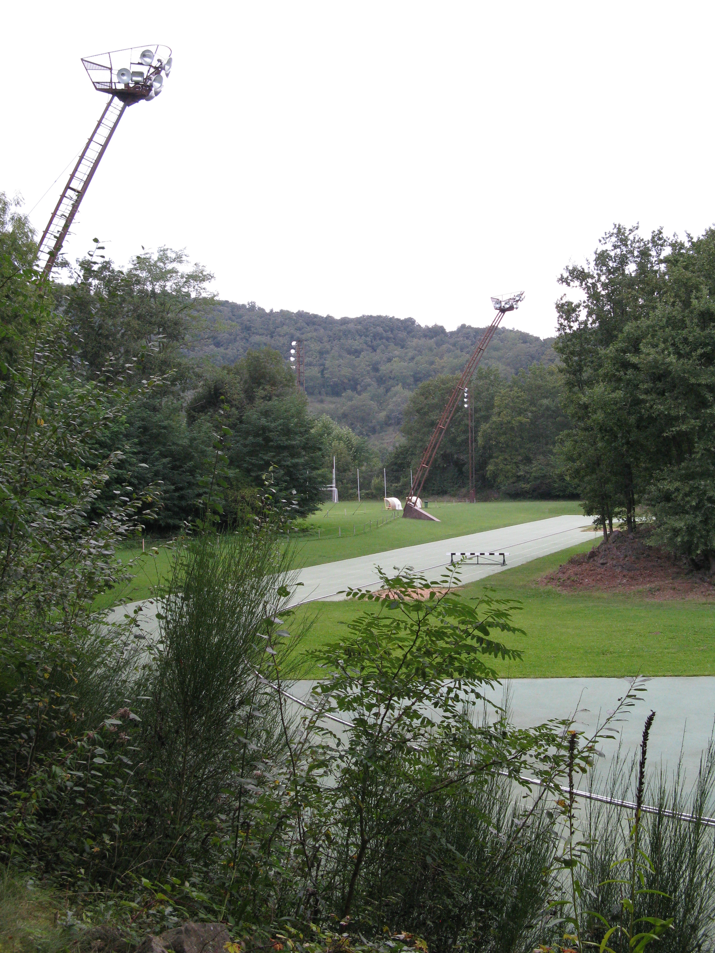 Stadium of athletisme at Olot (Catalonia, Spain)